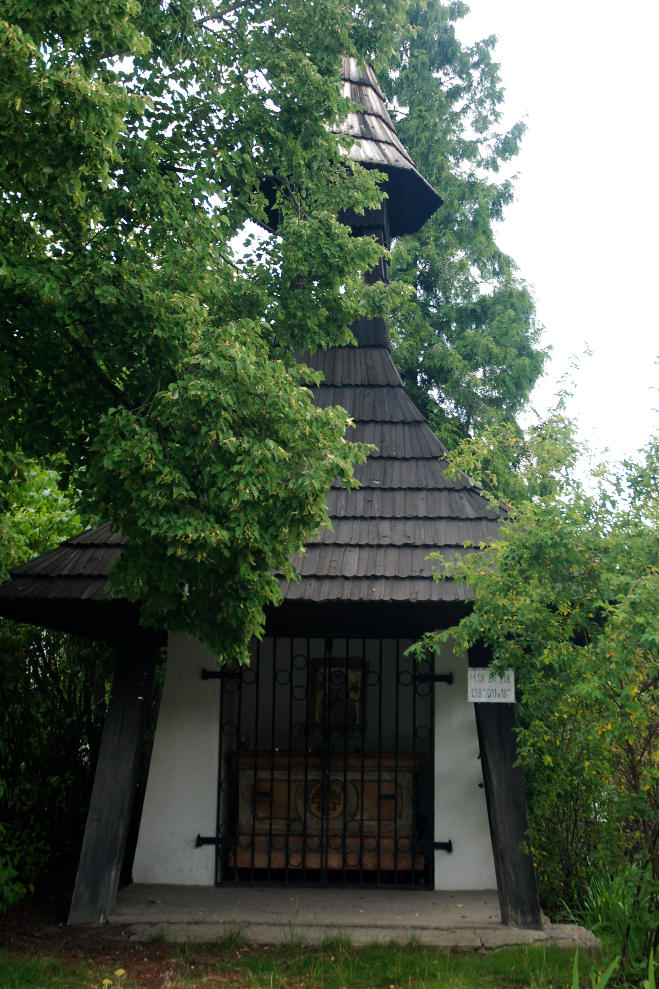 This photograph was taken within the scope of the third year of the 'Czech Municipalities Photographs' grant. Podkozí - kaplička